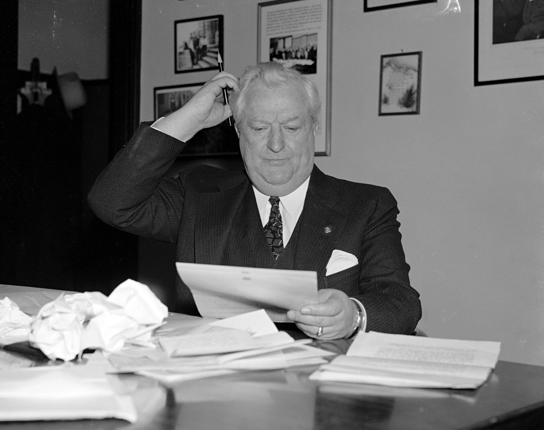 Rufus C. Holman, US Senator from Oregon